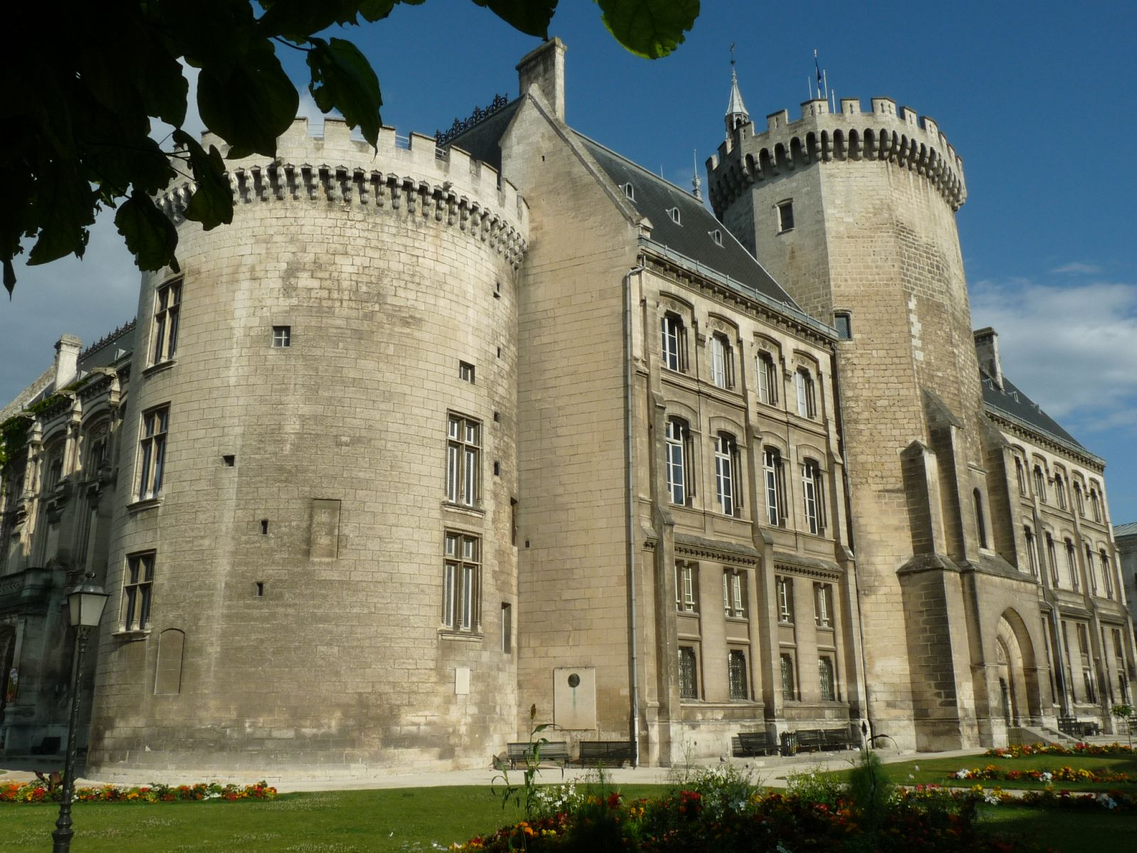 City hall of Angoulême, Charente, SW France